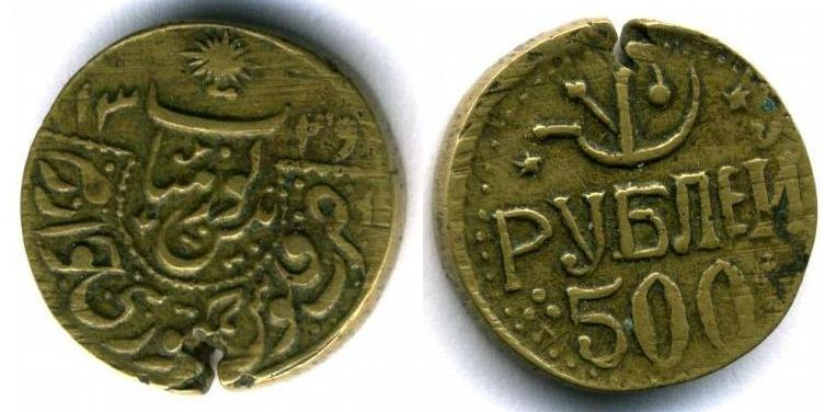 Uzbekistan, Khwarezm: 500 roubles AH1339 (=1920-21). An improved version of Image:Horezm 1920-1921.JPG, uploaded by User:Jaro.p on May 4th, 2007.